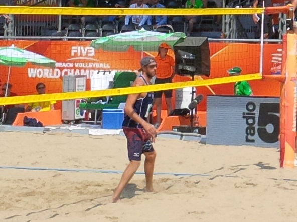 Theo Brunner, 2015 Beach Volleyball WC, round of 16. Dam Square, Amsterdam.